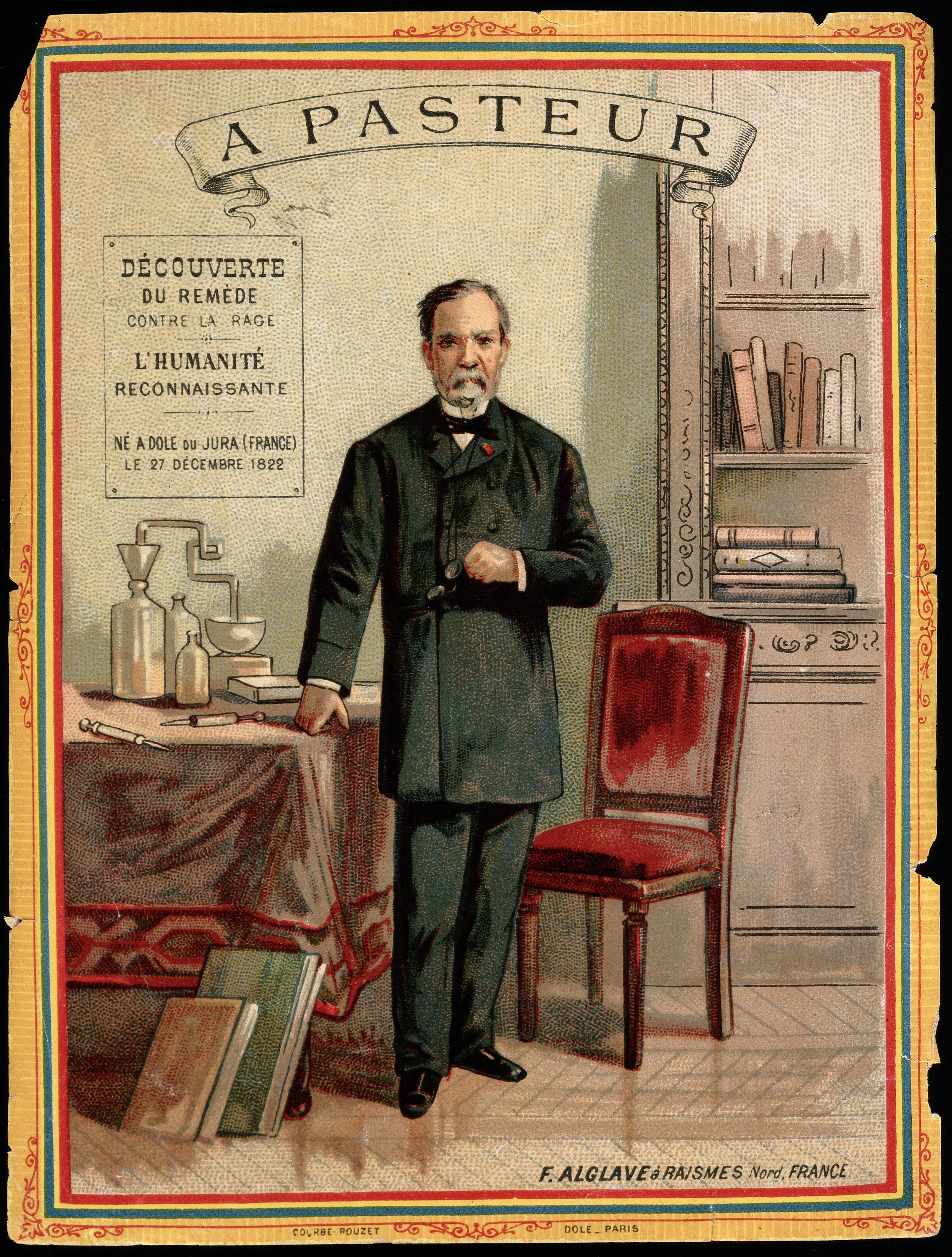 Louis Pasteur, standing, holding eyeglasses, with chemical apparatus and books. Chromolithograph. Iconographic Collections Keywords: Louis Pasteur